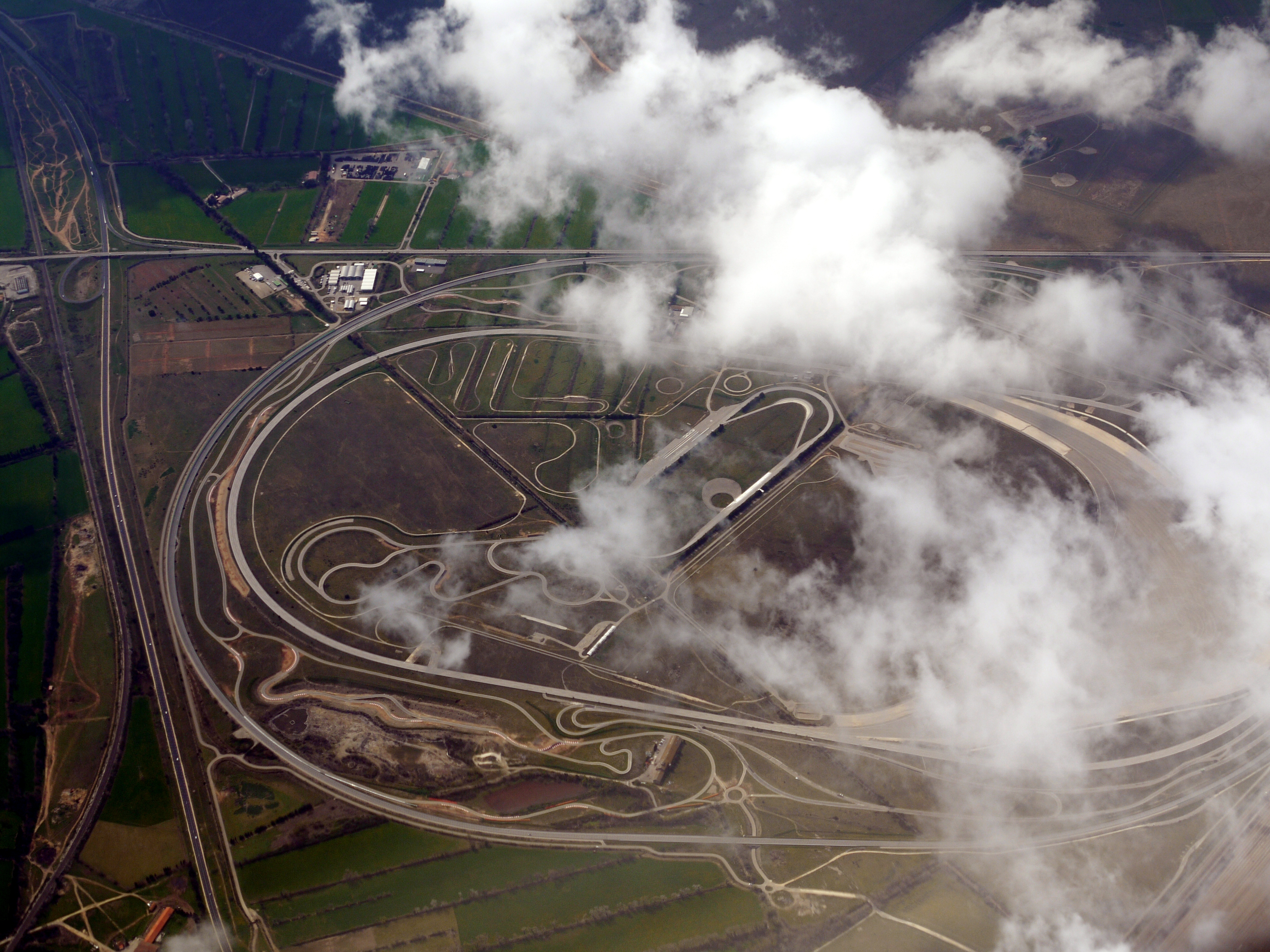 The BMW Autodrome of Miramas, photograph taken from the sky, on the fly line between Marseille and Stockholm.